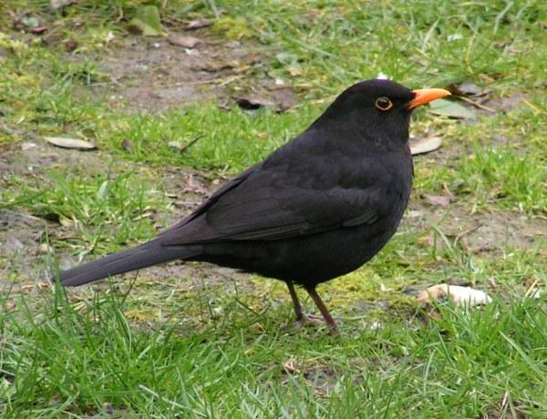 Image of an adult male blackbird Turdus merula.